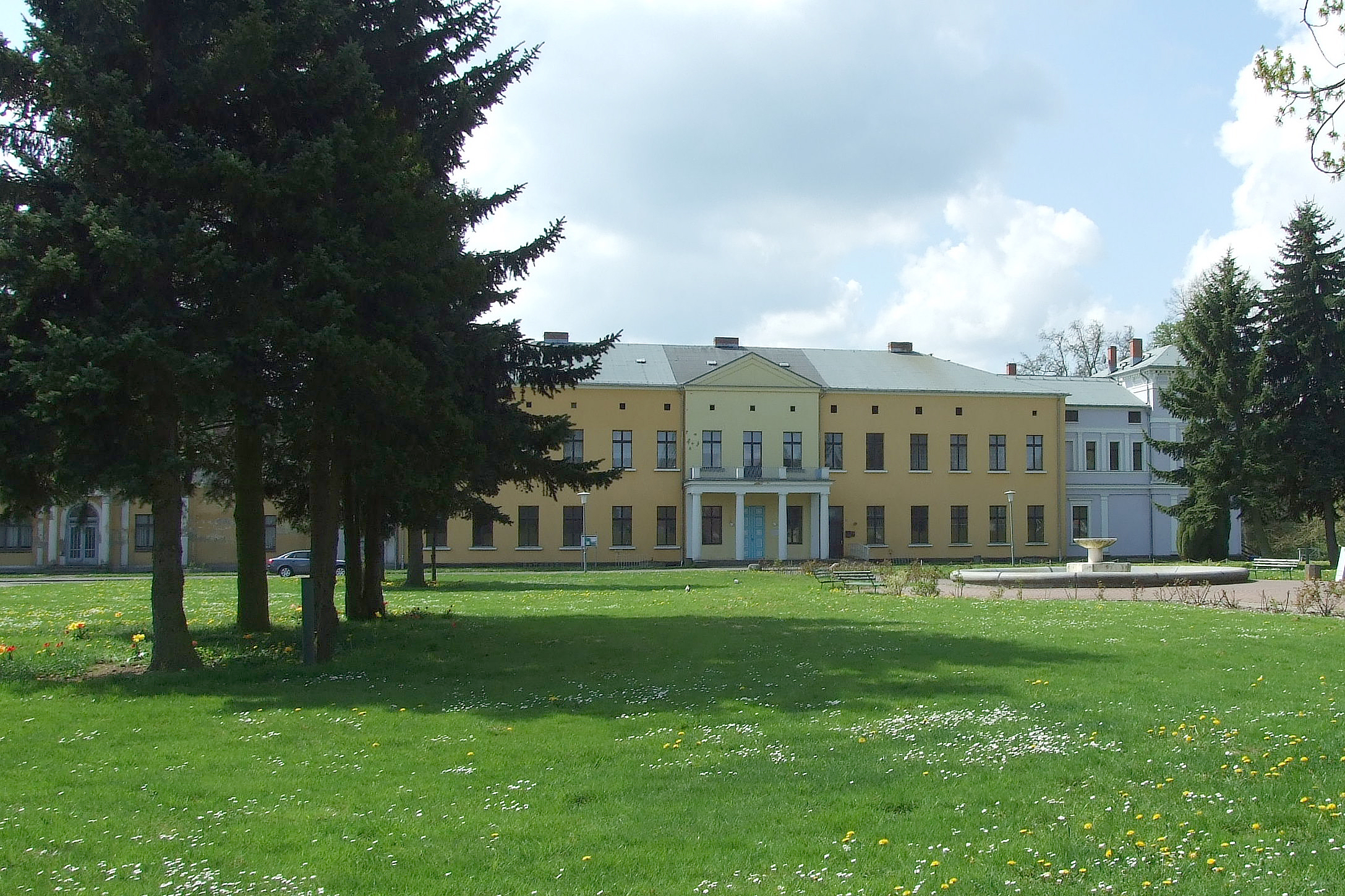 Castle of Semlow